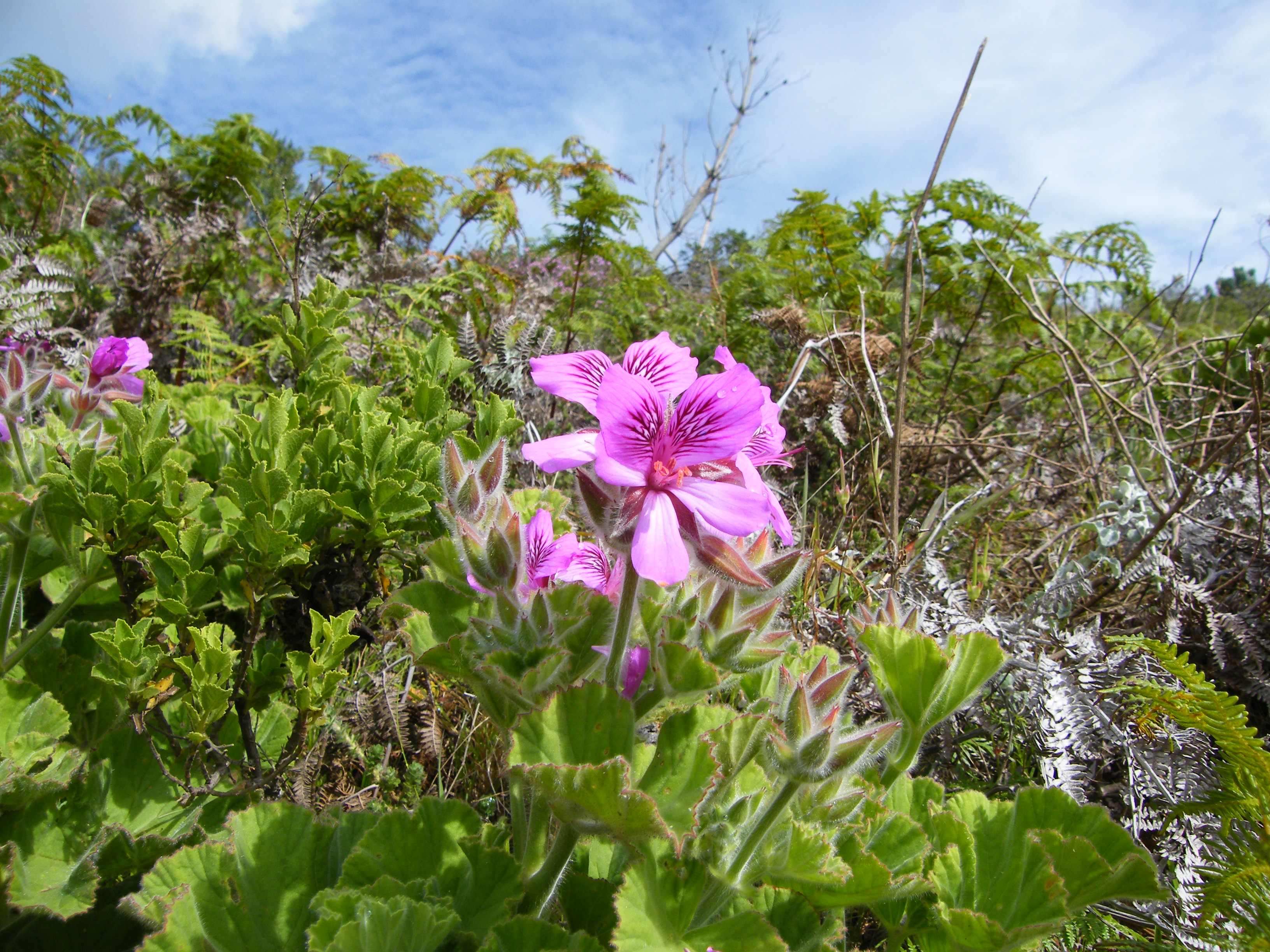 Hooded-leaf Pelargonium